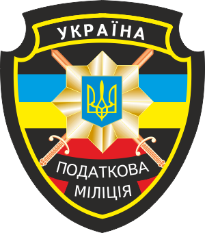 Symbol of Tax Militia of Ukraine